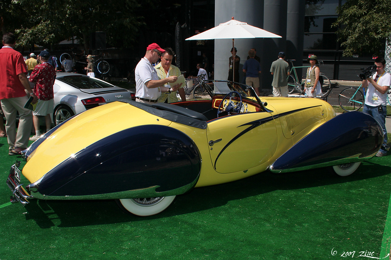 Talbot-Lago T150C Spécial Roadster with bodywork by Figoni & Falaschi. S/N 90019 1938Pasadena Art Center Car Classic, July 7, 2007